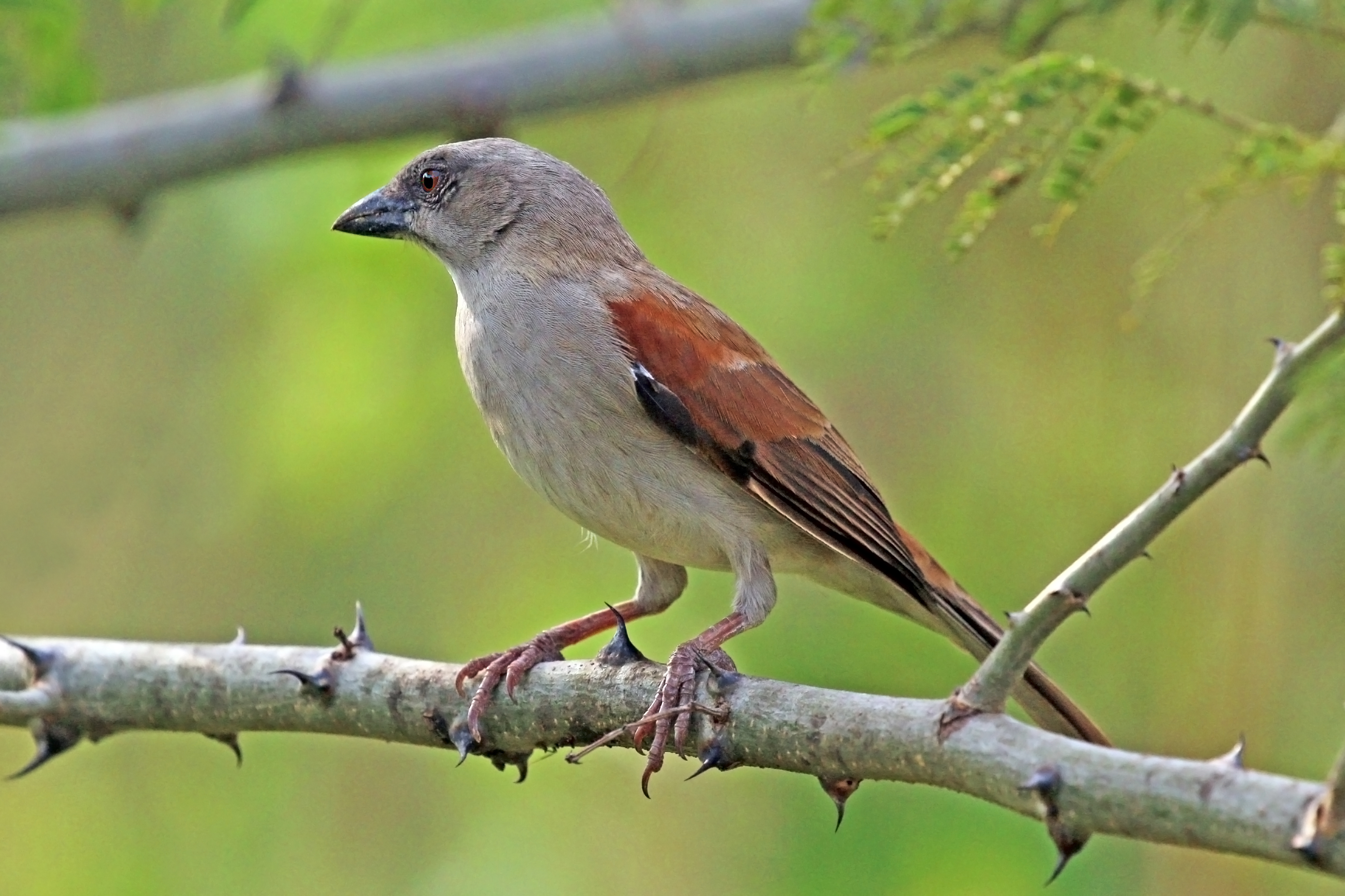 Northern grey-headed sparrow (Passer griseus ugandae), Semliki Wildlife Reserve, Uganda